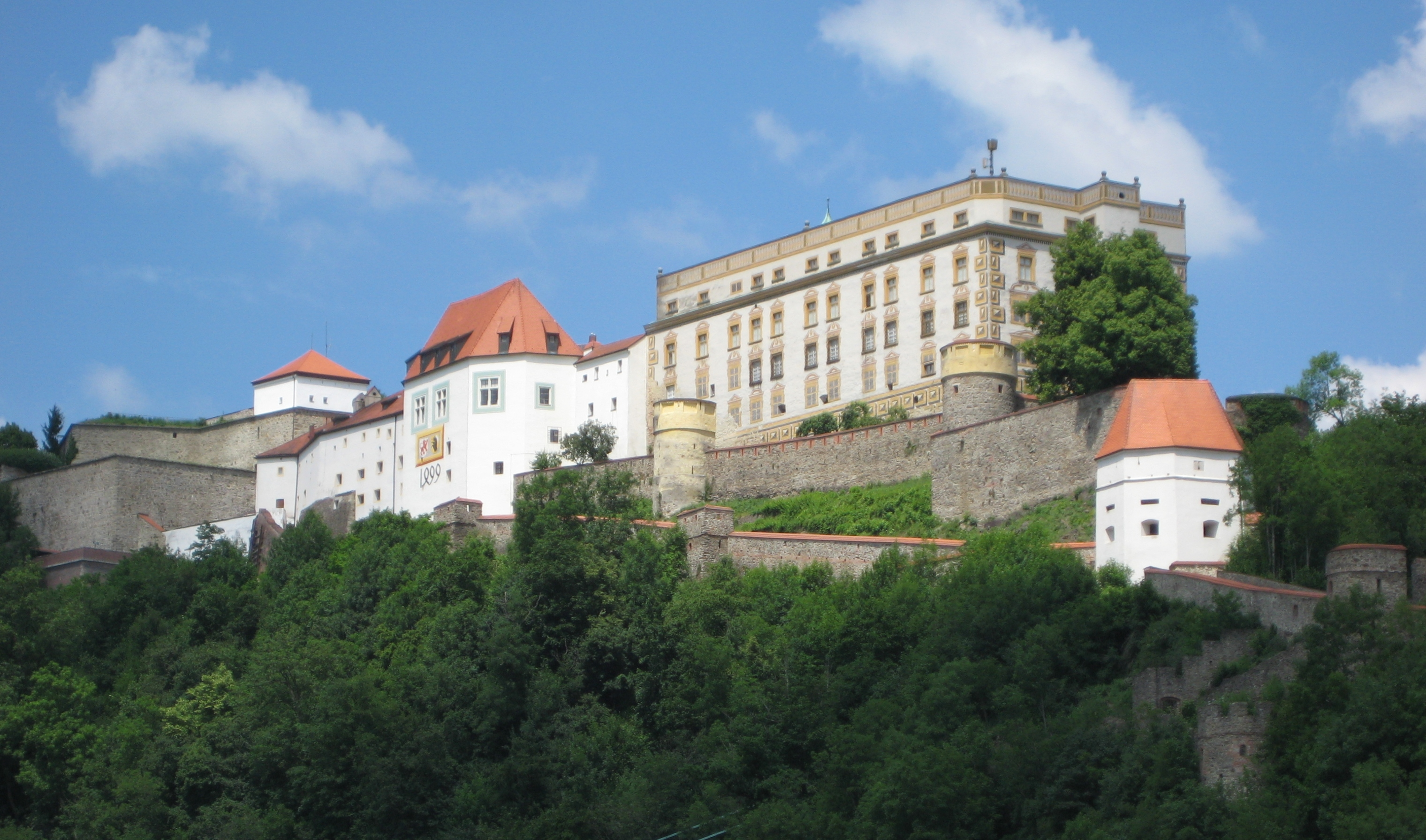 Veste Oberhaus, Passau This is a photograph of an architectural monument.